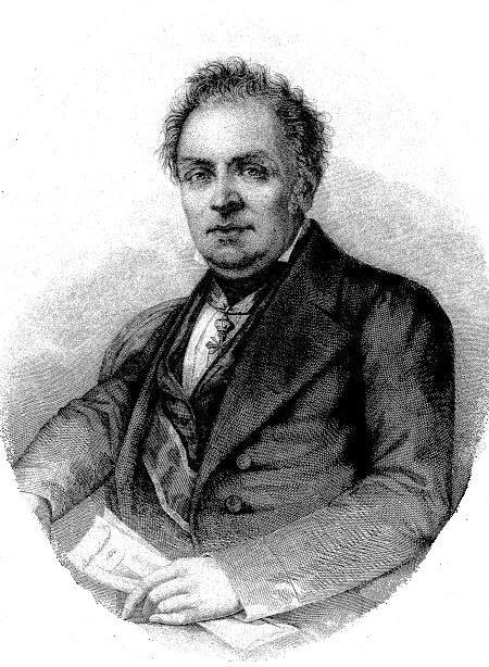 Antonio Lombardini (1794-1869), professor of mathematics, magistrate and politician born in Parma, Italy.